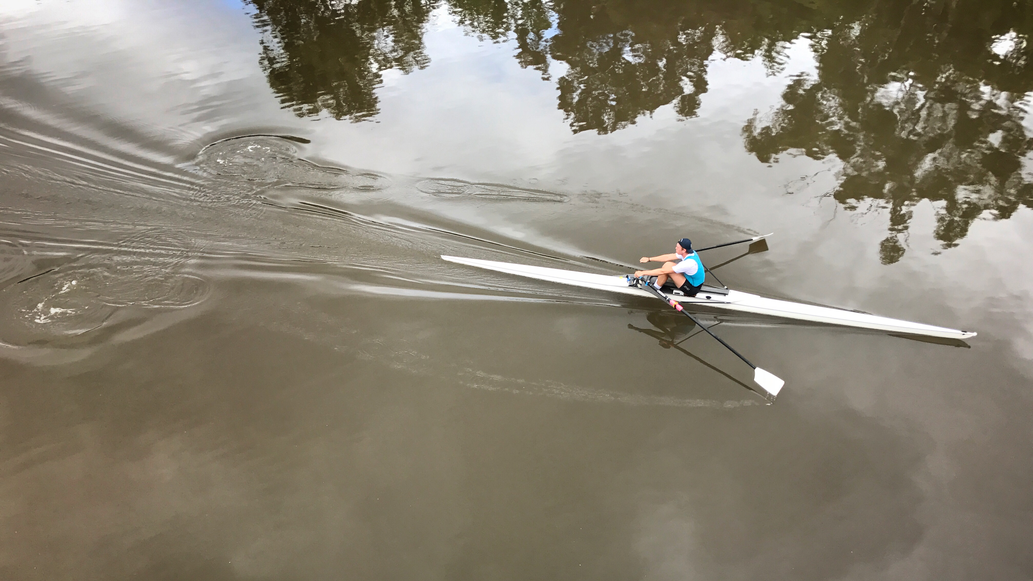 A rower in Jolimont, Melbourne